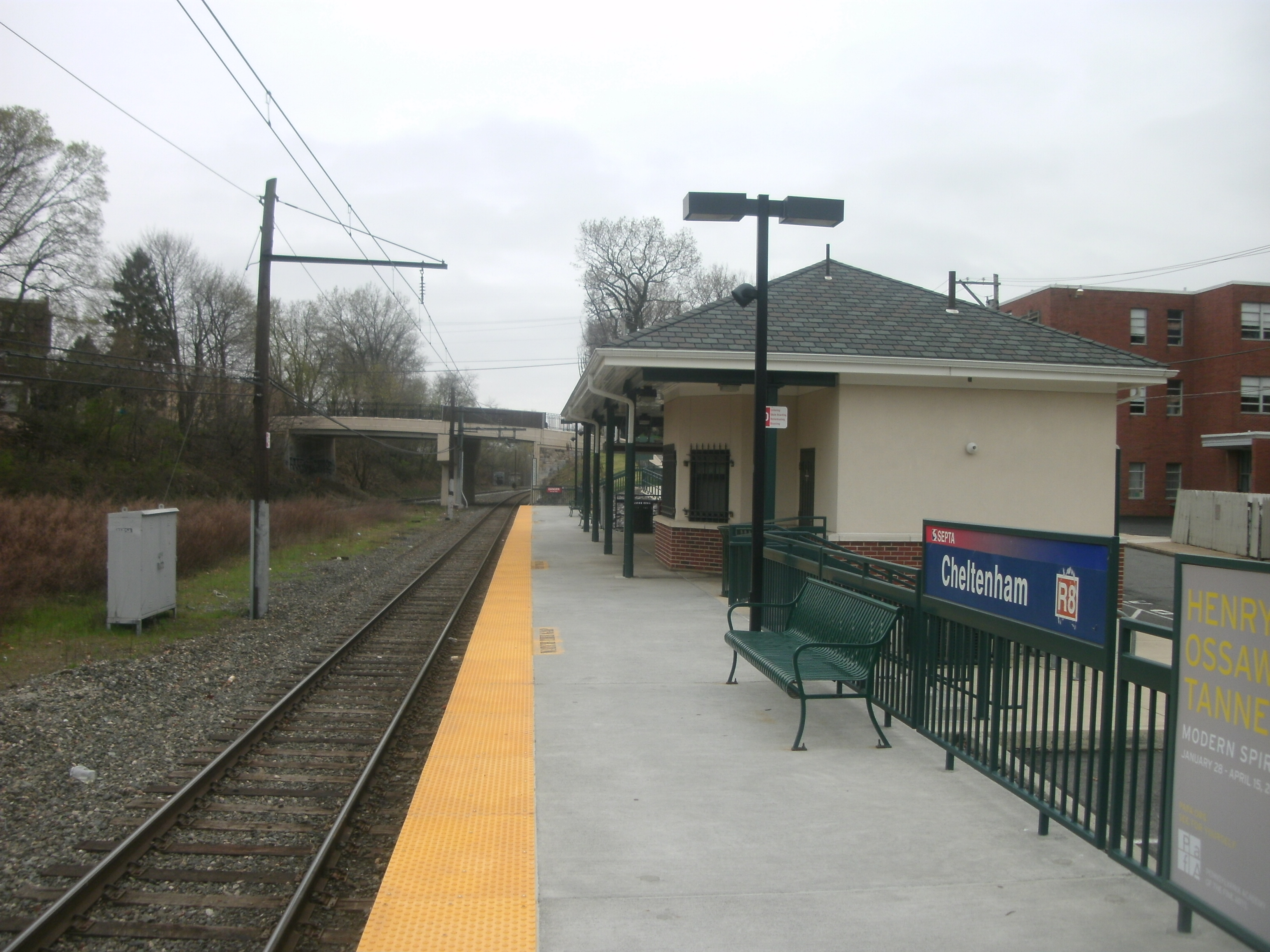 Cheltenham Station on the former R8 Fox Chase, facing the depot as seen in March 2012 after replacement of the trailer.